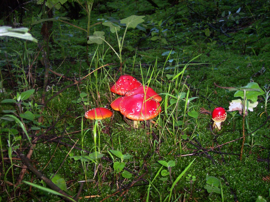 Santa María Magdalena Cahuacán